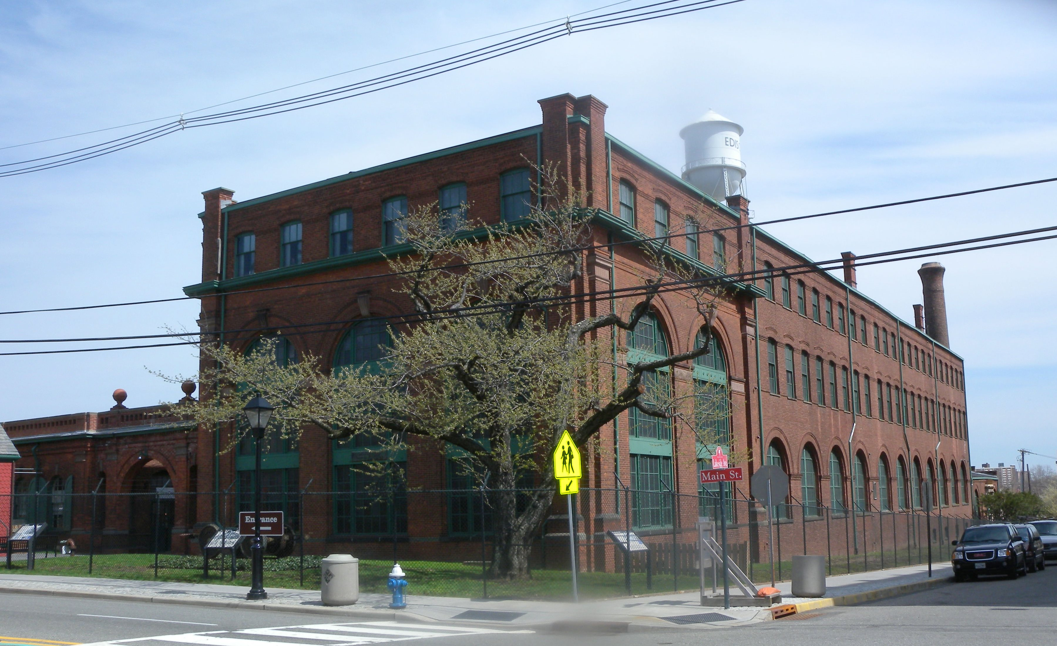 Looking east across Main Street and Lakeside Avene at the Edison Laboratories on a sunny midday.